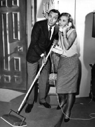 Publicity photo of Joey Bishop and Abby Dalton from The Joey Bishop Show (sitcom), 1964.